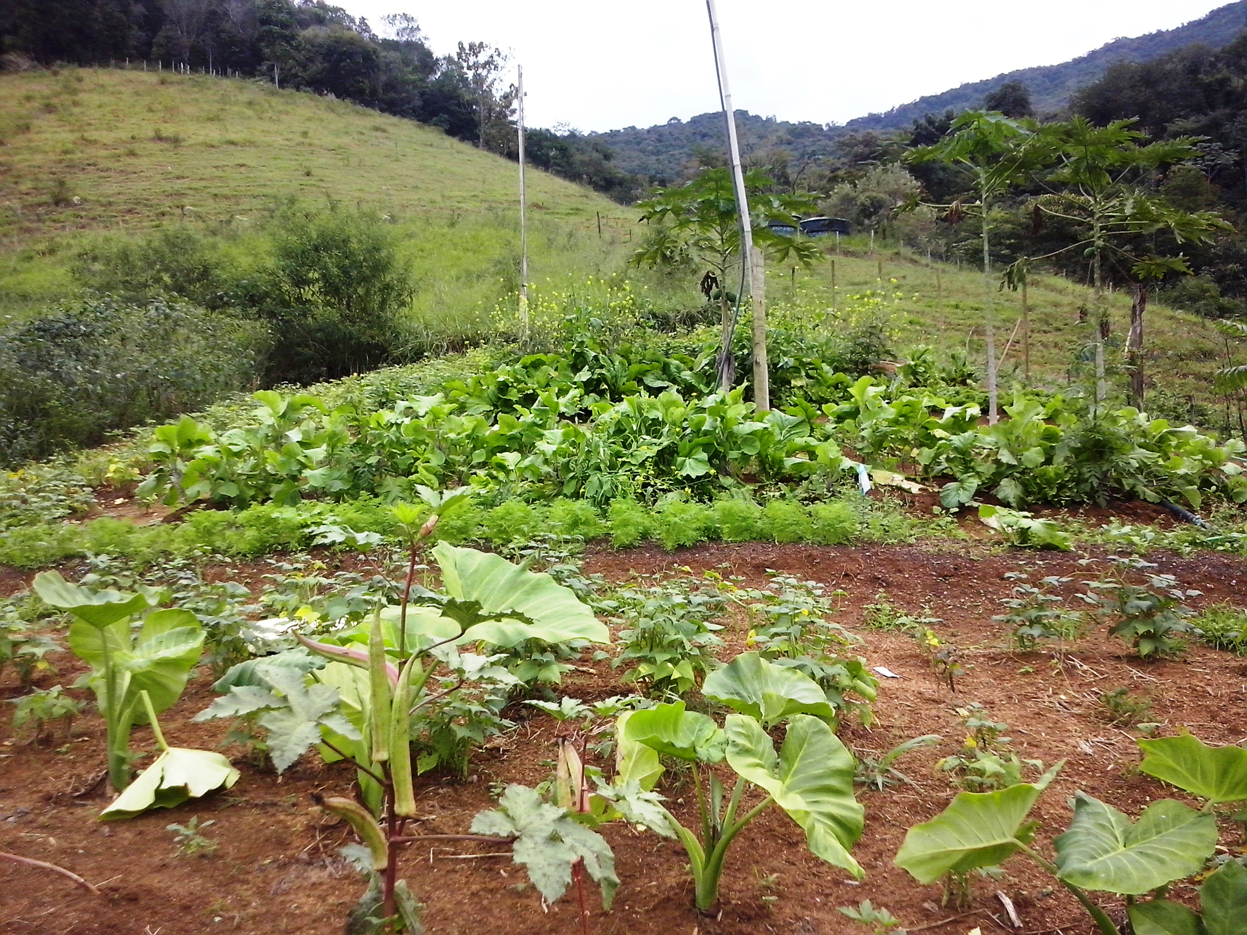 Agriculture in Santana do Paraíso, Minas Gerais, Brazil.